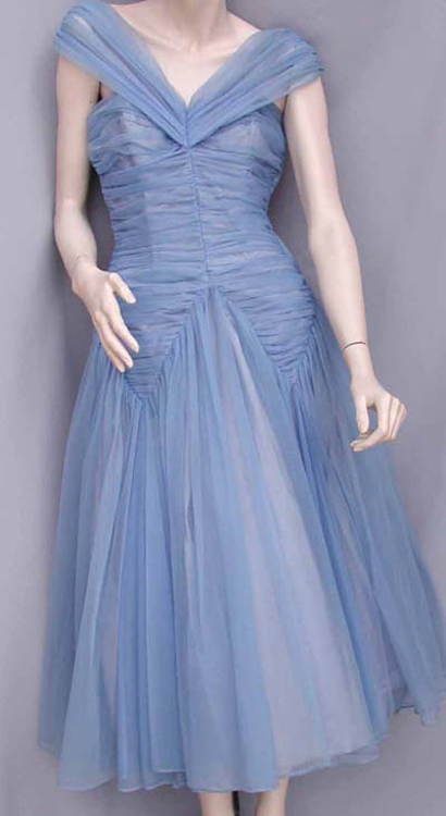 Nylon Ball Gown: Blue Nylon fabric ball gown on mannequin; solid blue Nylon under with blue Nylon tulle overlay; main body of dress is a drop waits that is gathered at the sides and in the front and back; body meets the full skirt is a large wide zigzag pattern; blue Nylon tulle straps are wide and attach at the neckline forming a V; metal zipper sewn into the back; tag on inside identifies the designer, Emma Domb.